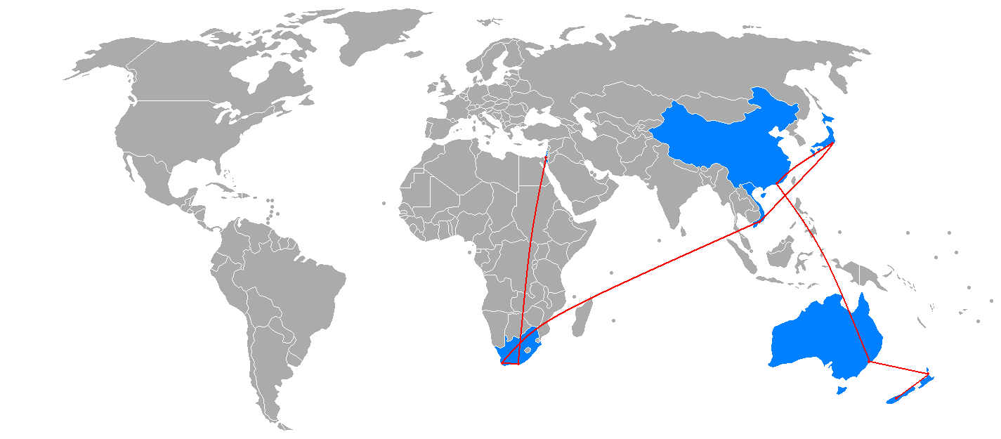 The route map of HaMerotz LaMillion